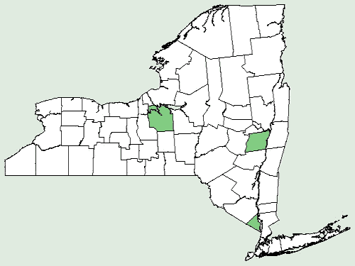 New York distribution map for Mentha × villosa